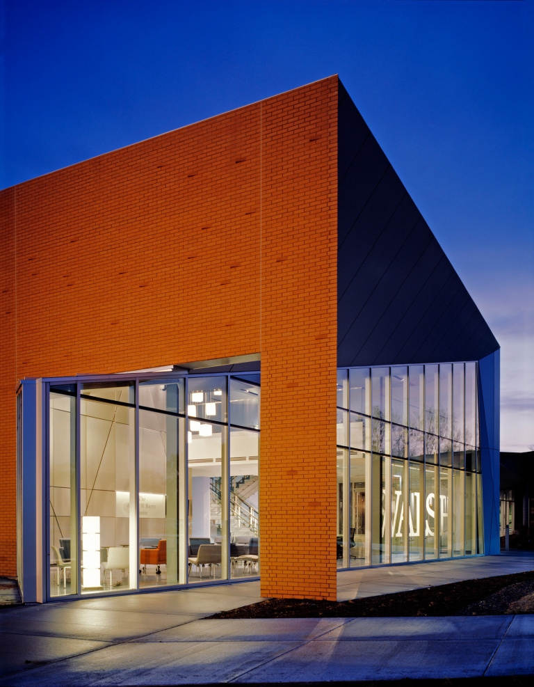 Jeffrey W Berry Center